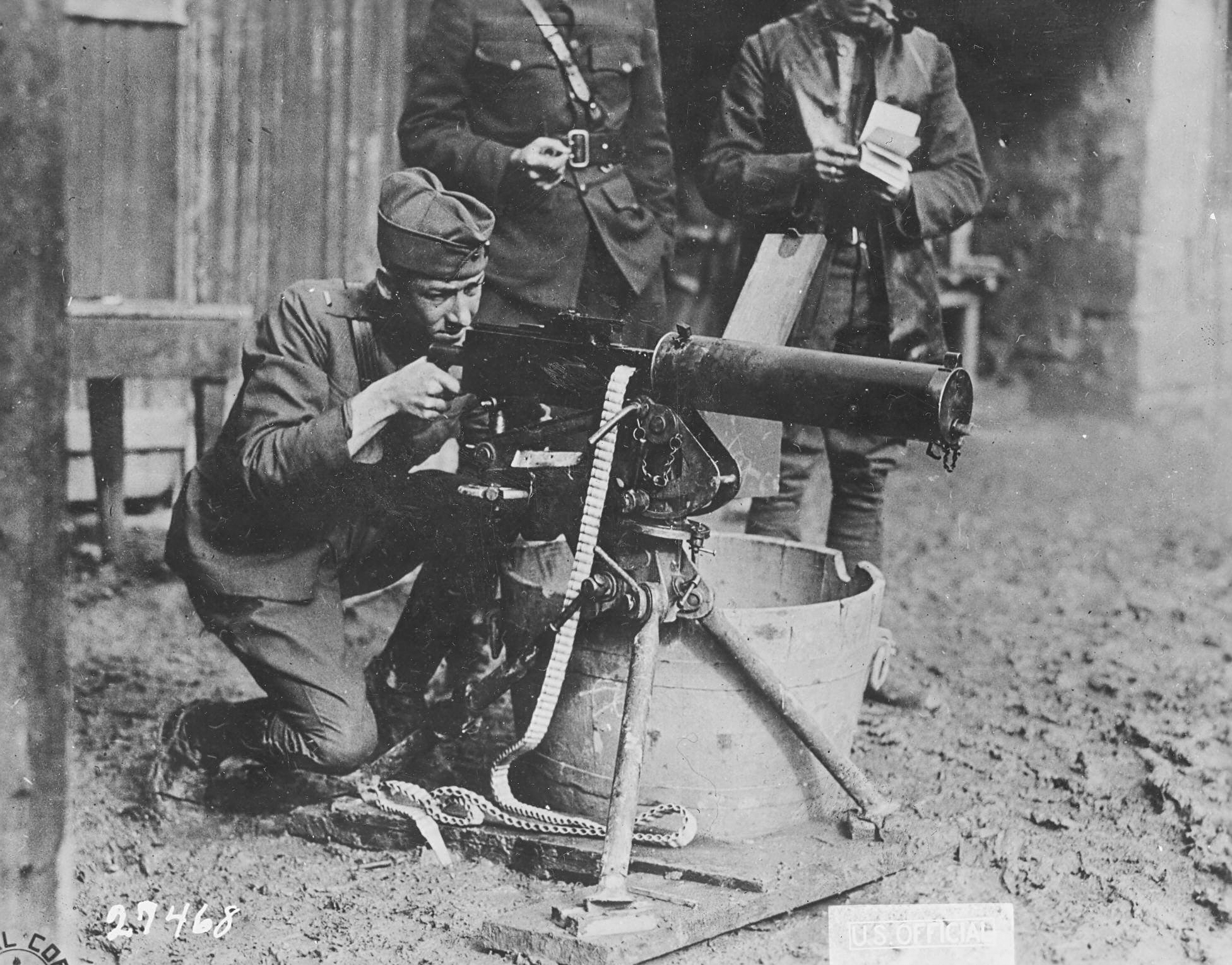 This image shows 2nd Lieutenant Valmore A. Browning firing a Browning Machinegun. The weapon's firing rate was 500-600 shots per minute. The ammunition capacity was 250 cartridges in a box, 8 boxes to a gun. This gun was used in the Argonne Sector and is being tested by Lt. Browning at Thillombois, Meuse, France, October 5, 1918.